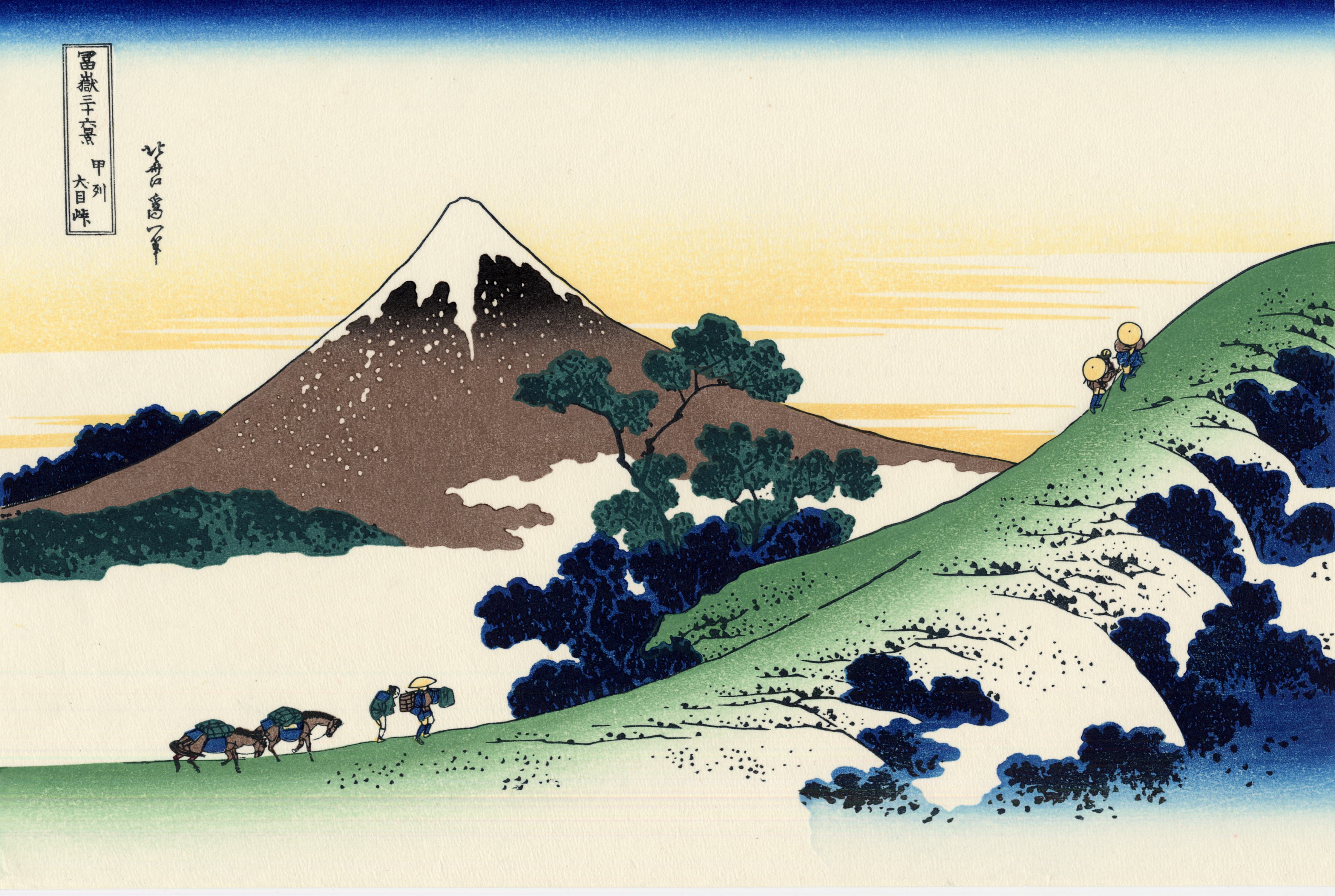 Part of the series Thirty-six Views of Mount Fuji, no. 41, 5th additional woodcut.